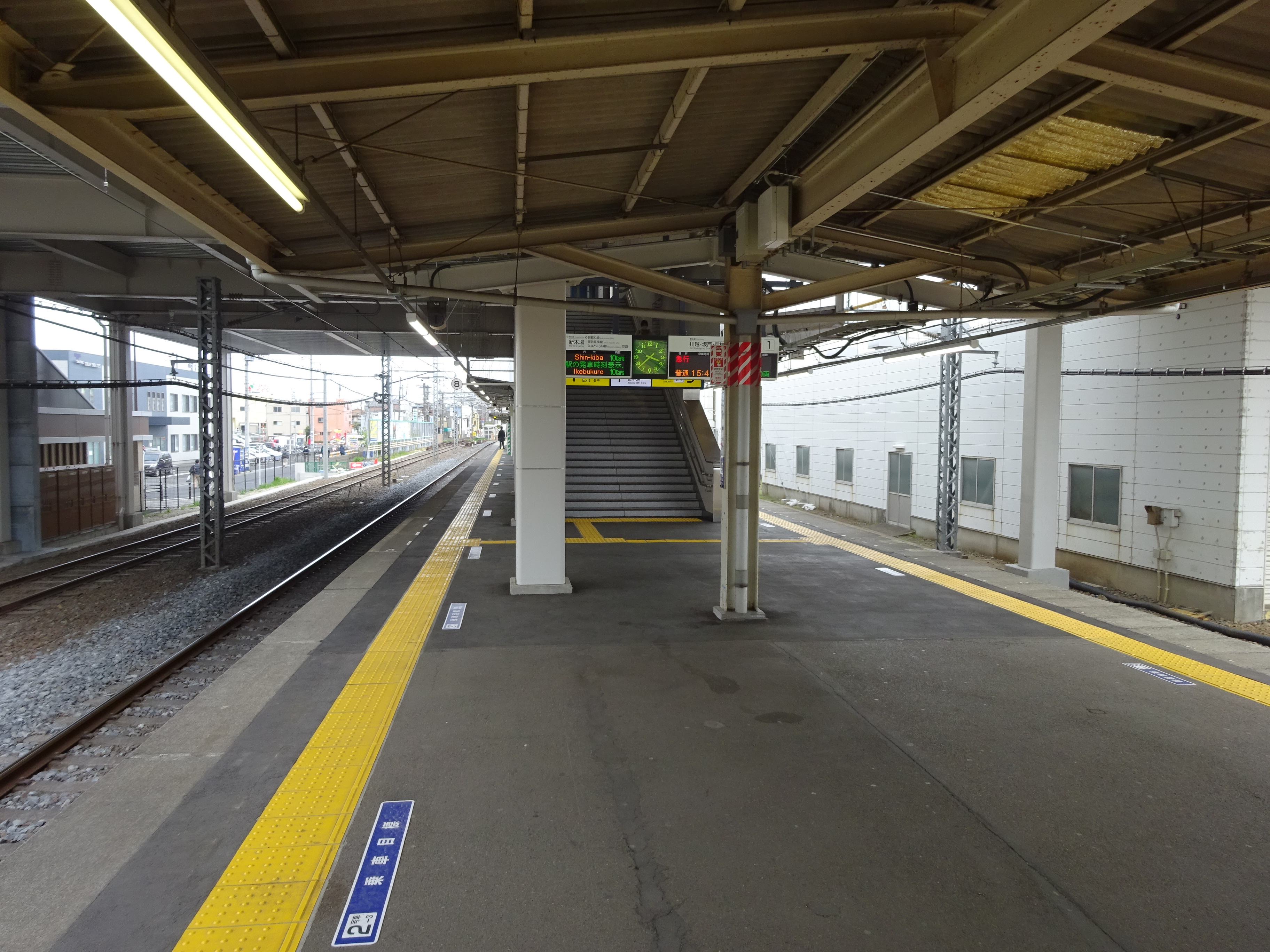 Platforms of Shingashi Station